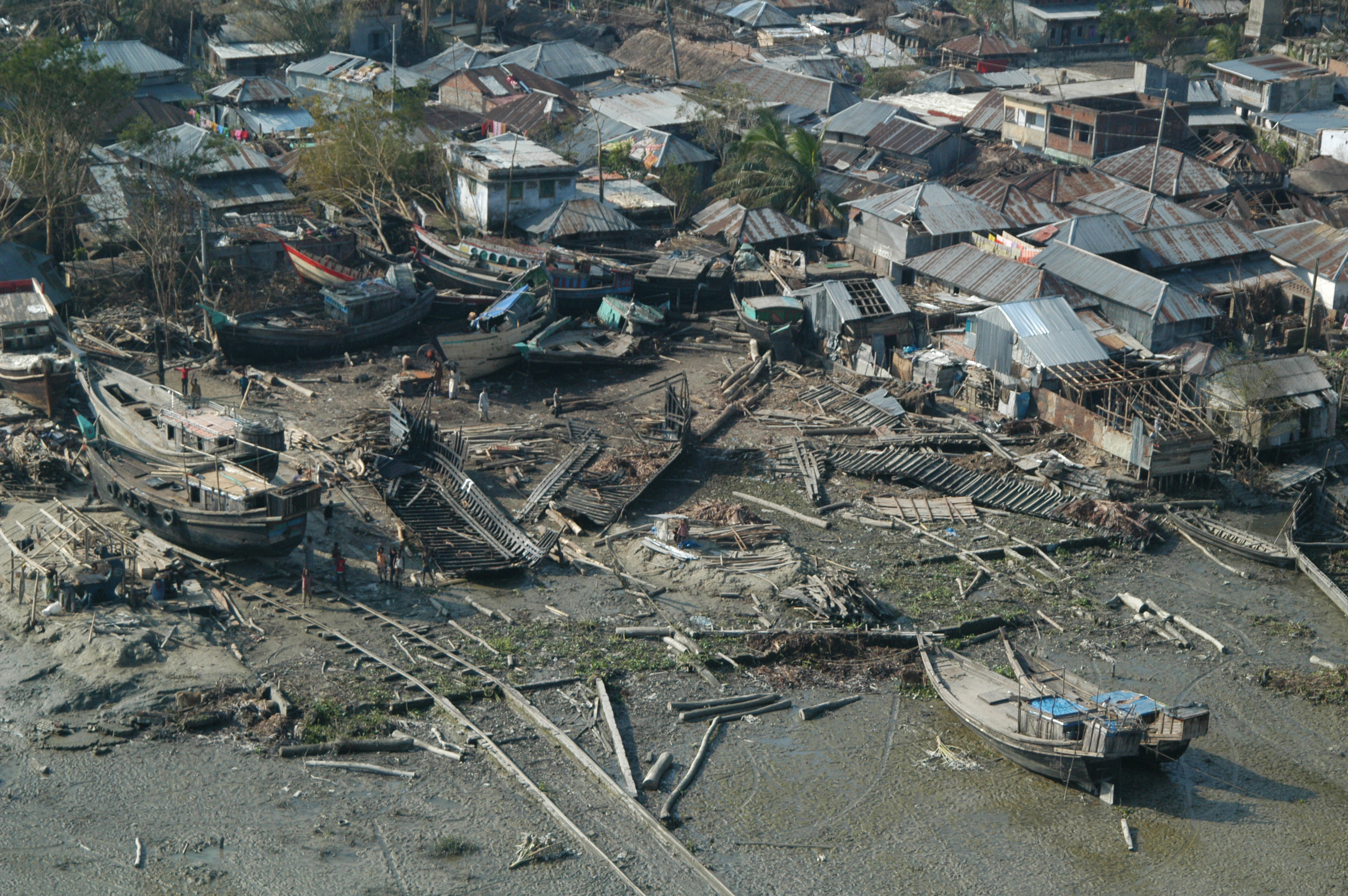 An aerial photograph is taken in Bangladesh, November 27, 2007, of the destruction left behind by Tropical Cyclone Sidr. Tropical Cyclone Sidr struck the coast on November 15. The storm killed over 3,000 people and has left several hundred thousand homeless.